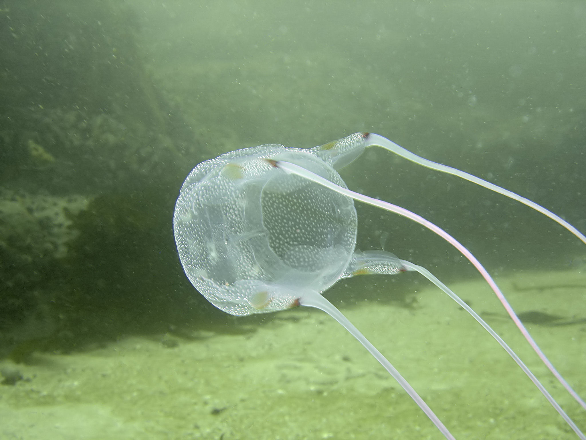 Box jellyfish at Bakoven Rock